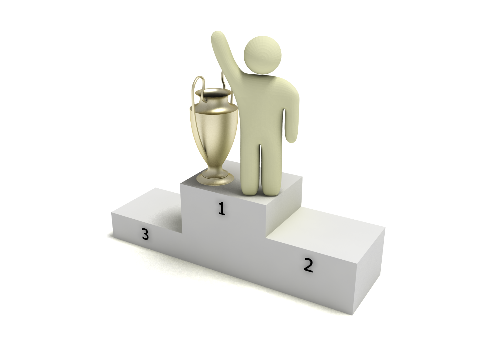 victory,podium,win,contest,sport